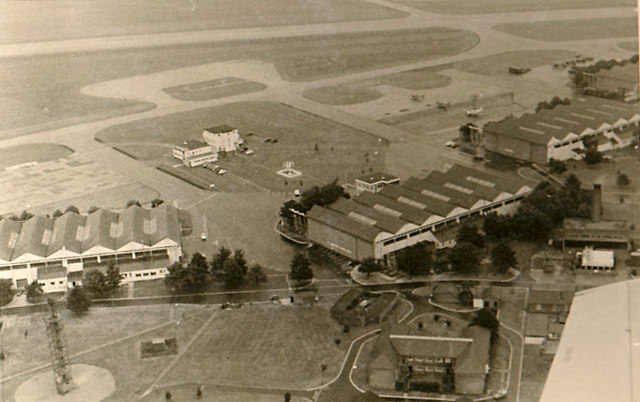 Royal Air Force Abingdon c1972 Archive material! Taken from a Chipmunk trainer aircraft. The small area of the airfield shown includes: to the left, the Jaguar aircraft servicing hangar, right of centre - the hangar housing No 1 Parachute Training School (RAF) and to the right of that the Joint Air Transport Establishment hangar. At bottom left can be seen a training tower to which trainee parachutists would graduate having completed training in basic exit and landing techniques from apparatus in the main hangar. The white building left of centre was the Air Traffic Control Centre. Somewhat different from today's aerial views! Date taken is approximate.